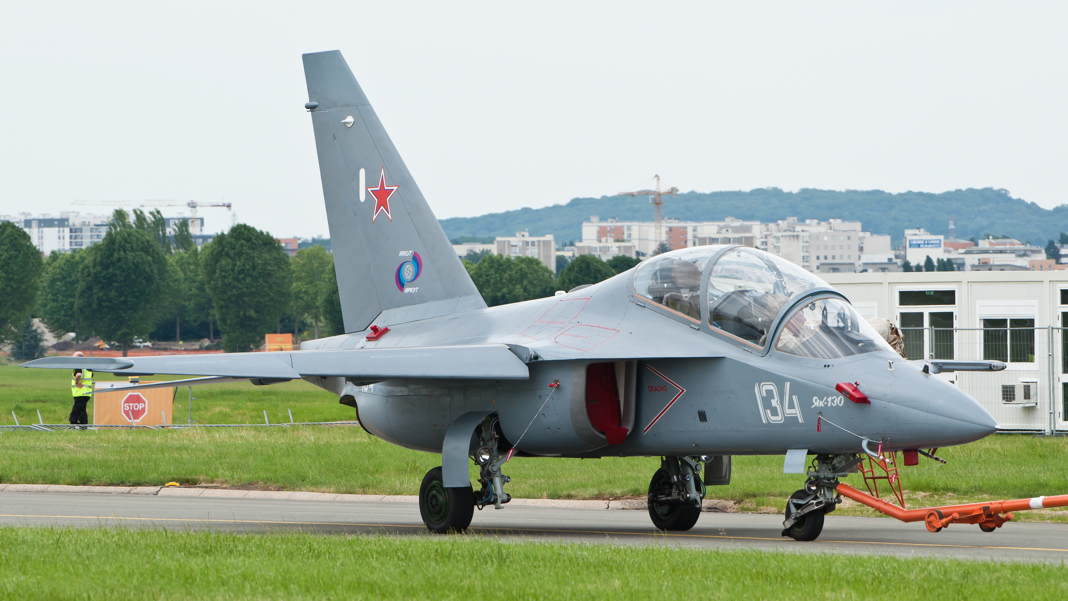 Russian Air Force Yakovlev Yak-130 (reg. 134 White, c/n 13012101) at Paris Air Show 2013.